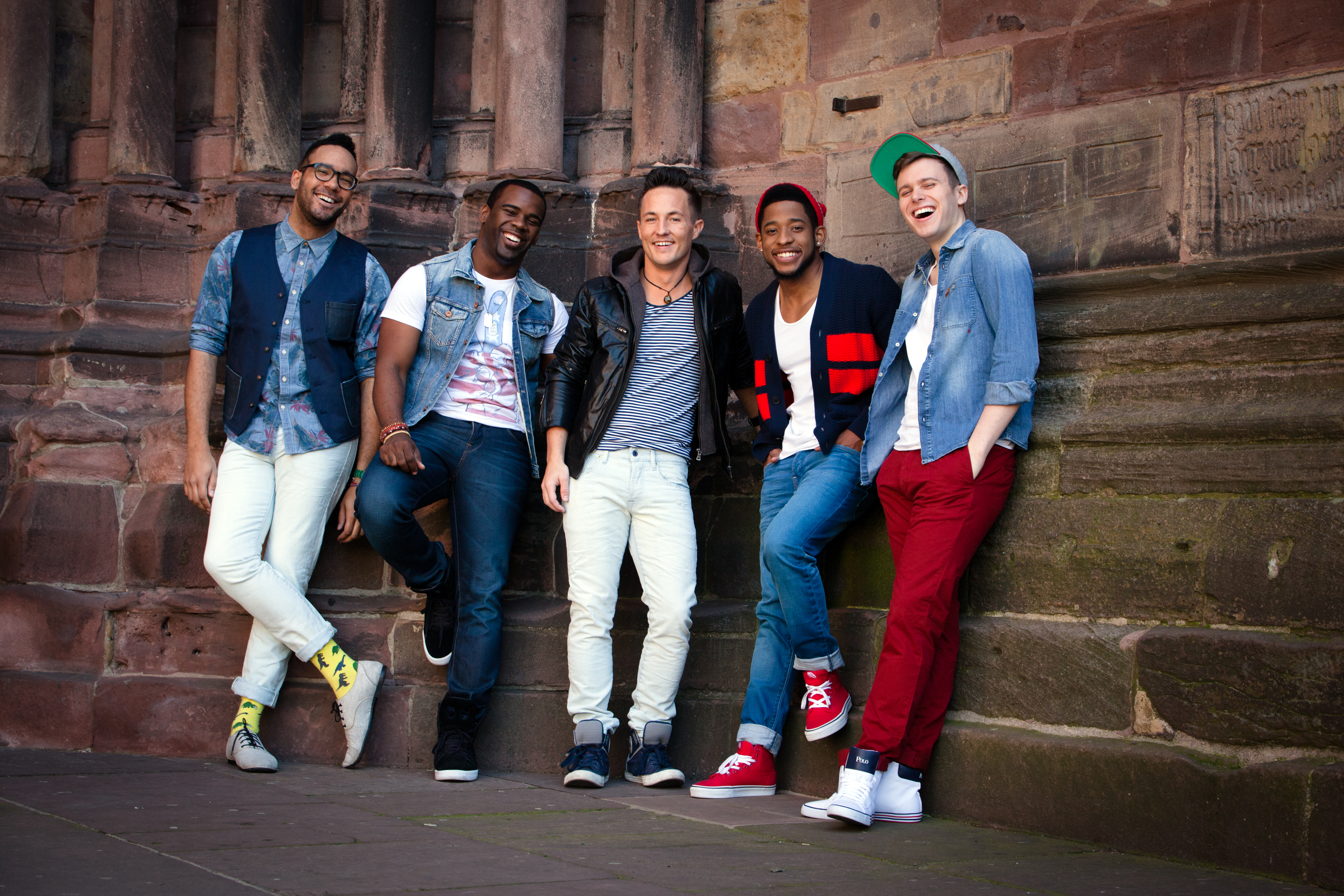 The Exchange, an American vocal-pop band, during a photo shoot in Freiburg, Germany